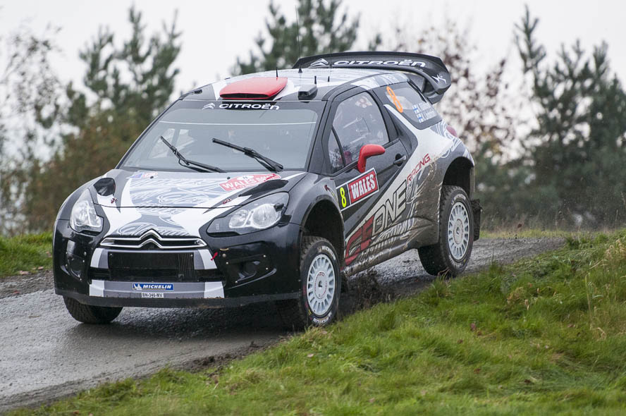 Wales Rally GB 2011 Citroen DS3 WRC,Ice 1 Racing,Kai Lindström,Kimi Räikkönen,Motorsport,Rallye,Wales Rally GB